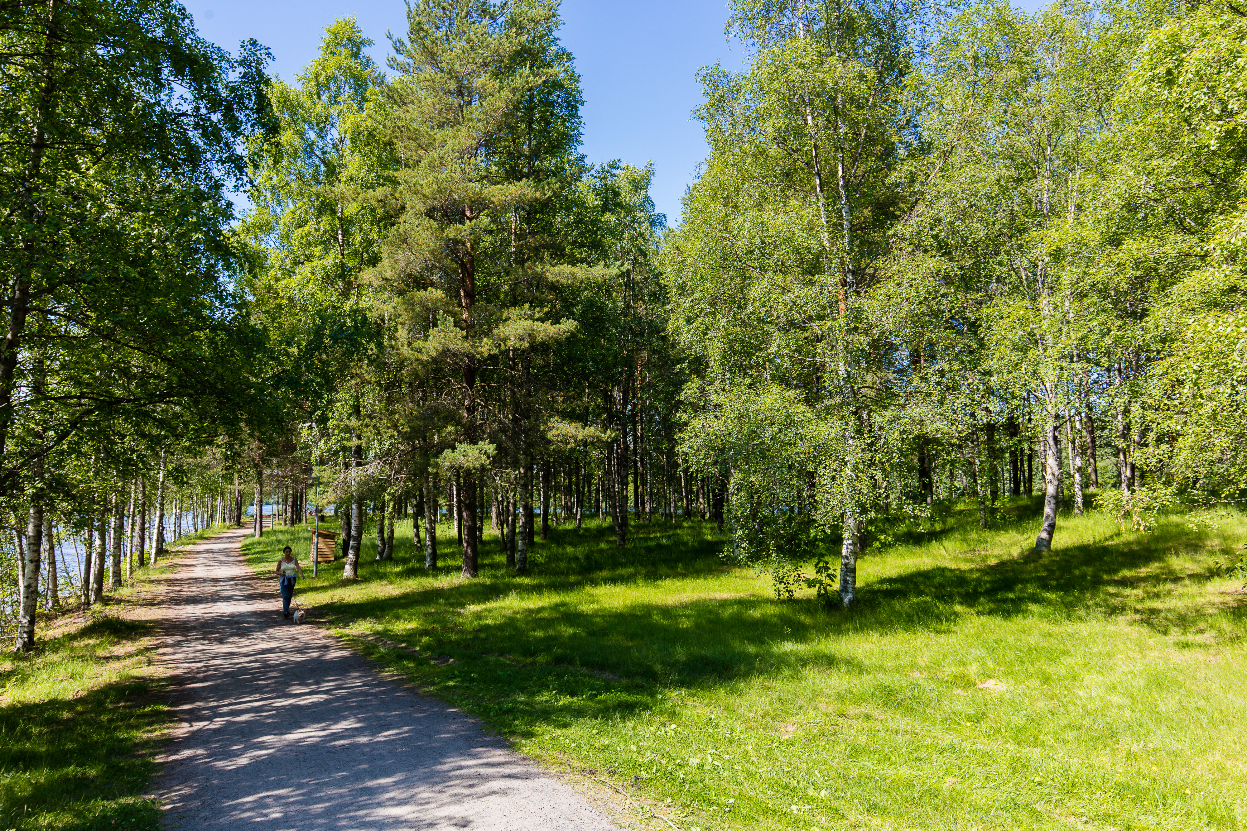 Bölesholmarna are a couple of small islands i the Ume River, about a kilometre upstream from central Umeå.